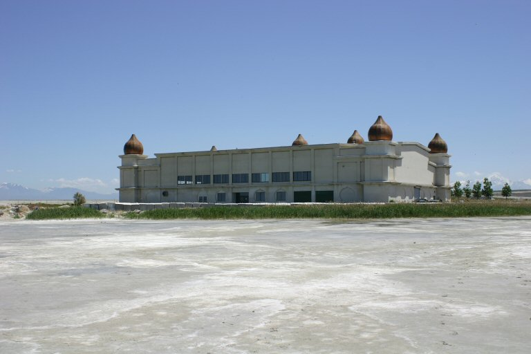 Saltair, Utah.